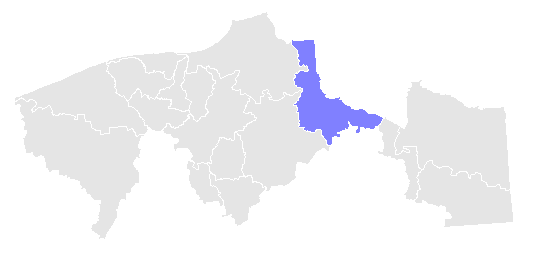 Jonuta, Tabasco. Hecho con Microsoft Paint